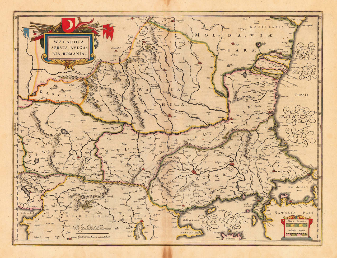 Walachia, Bulgaria, Romania, Servia and Rascia Amsterdam, Blaeu, J. & G. 1643-50 [38,5 x 51 cm] Copper engraving, hand colored in outline when published.